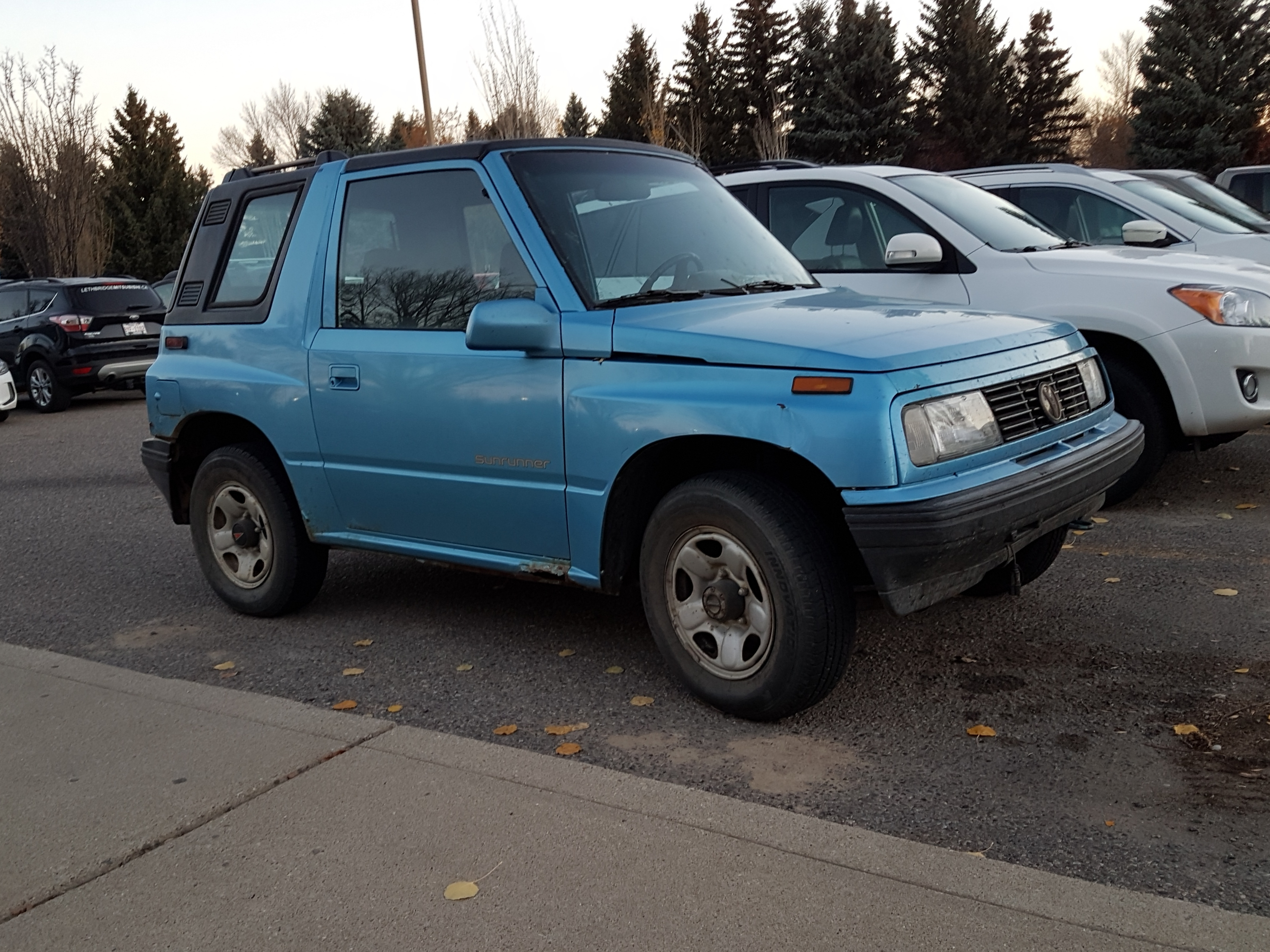 1994 to 1998 Pontiac Sunrunner only sold in Canada.